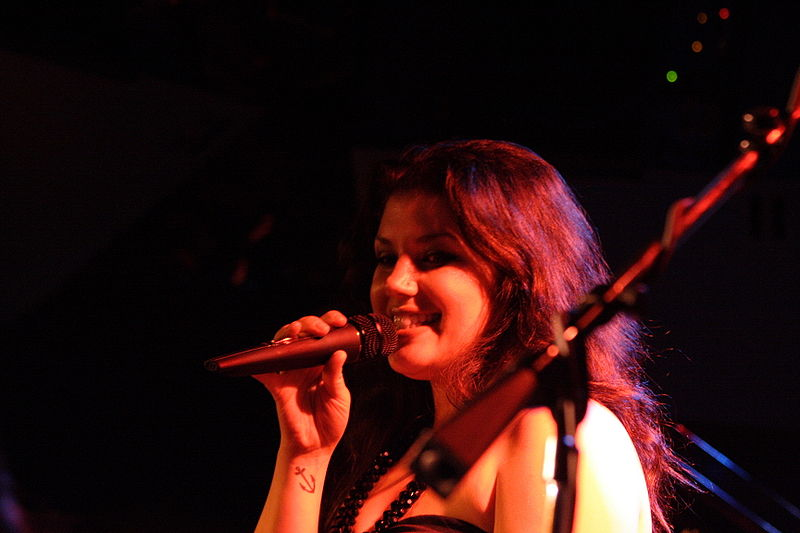 Jane Monheit in Blue Note (NY)